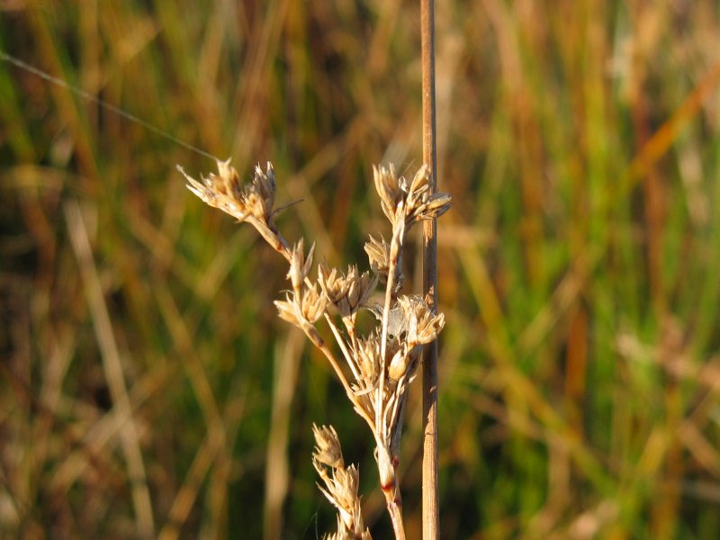 Meerstrand-Binse (Juncus maritimus)